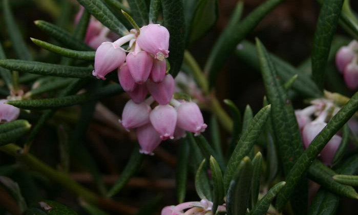 Andromeda polifolia: Flowers and foliage